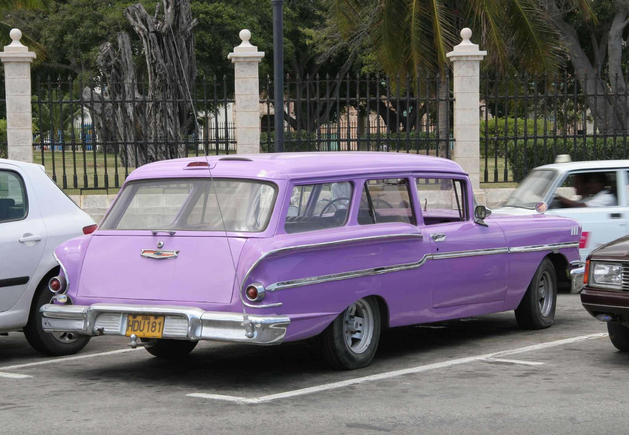 "Who you gonna call? Ghostbusters!" Well not really but it made me think of that.